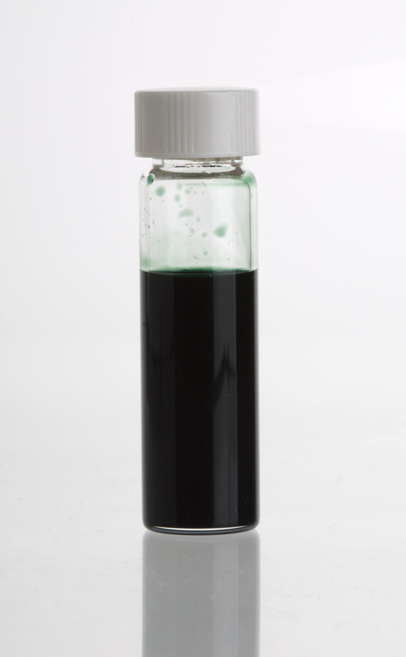 Glass vial containing German Chamomile (Matricaria recutita) Essential Oil